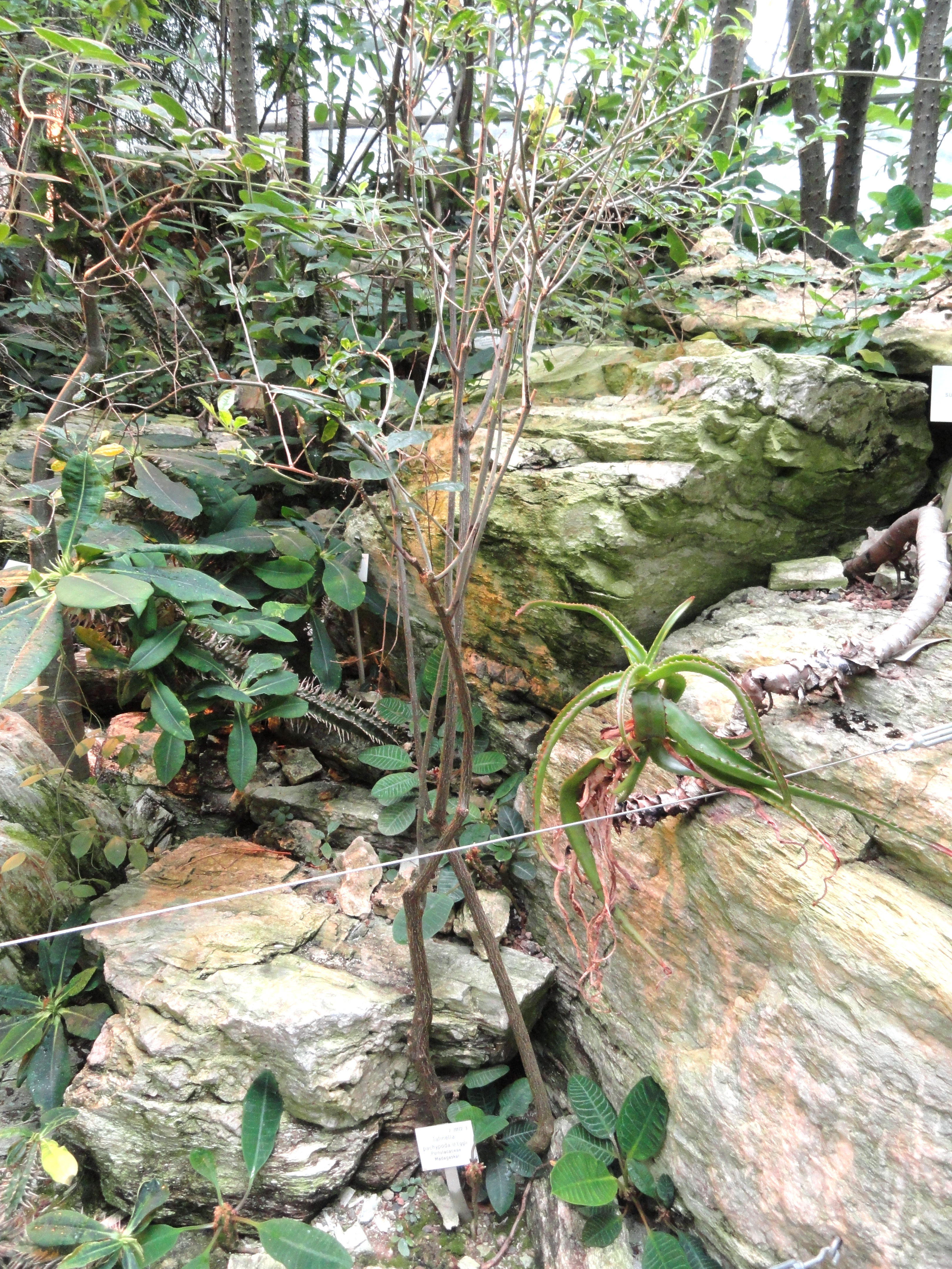 Botanical specimen in the Palmengarten, Frankfurt am Main, Germany.